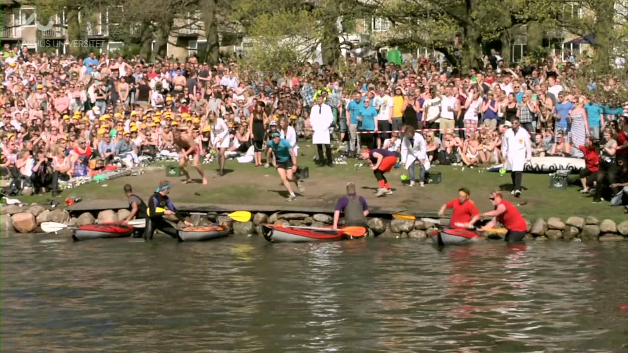 Annual boat race at Aarhus University